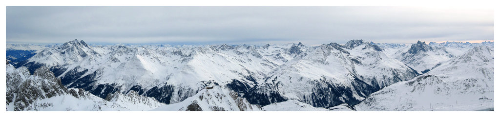 Panorama Arlberg